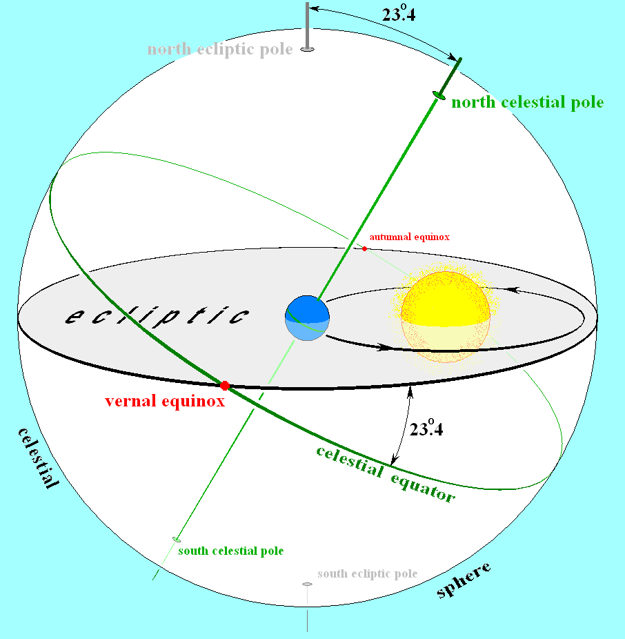 Diagram of Earth's orbit, showing ecliptic plane and celestial equator on the celestial sphere.